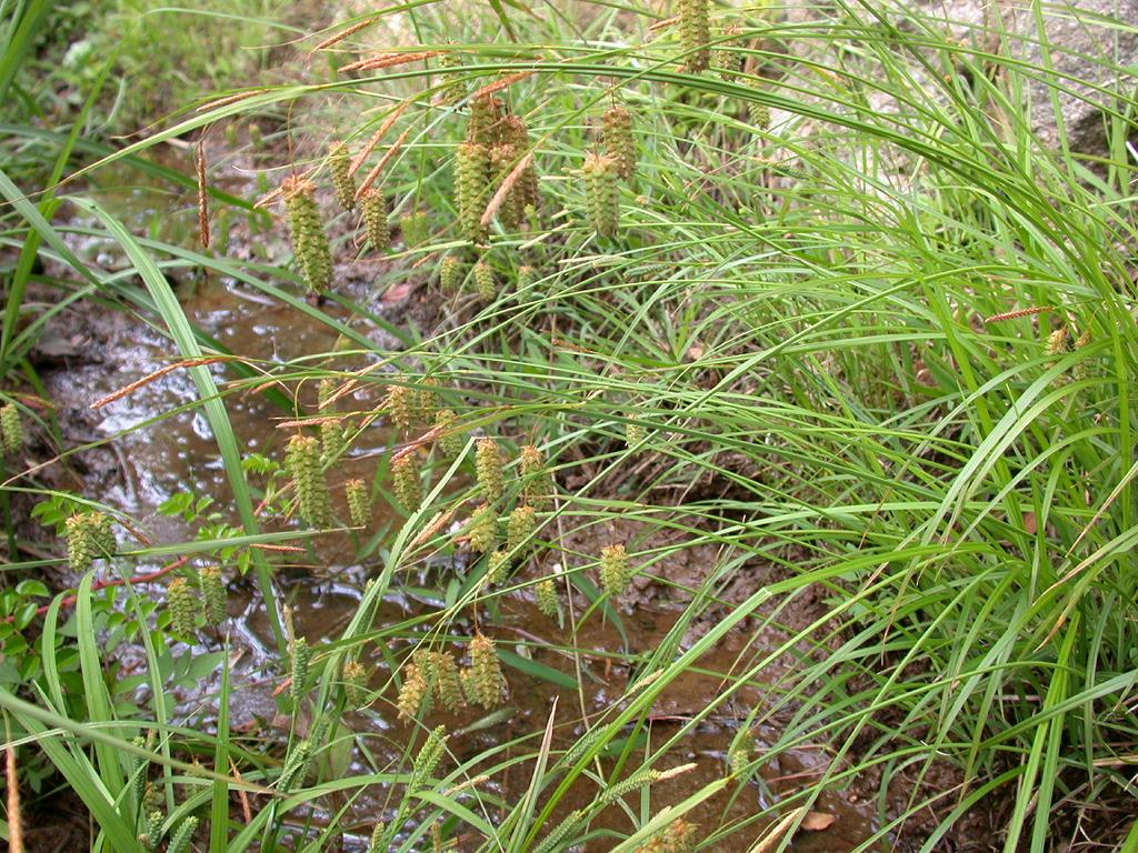 Carex maximowiczii(Cyperaceae) Japanese name:Gouso Date;2004,05,02;Tanabe city, Wakayama prefecture, Japan Author;Keisotyo